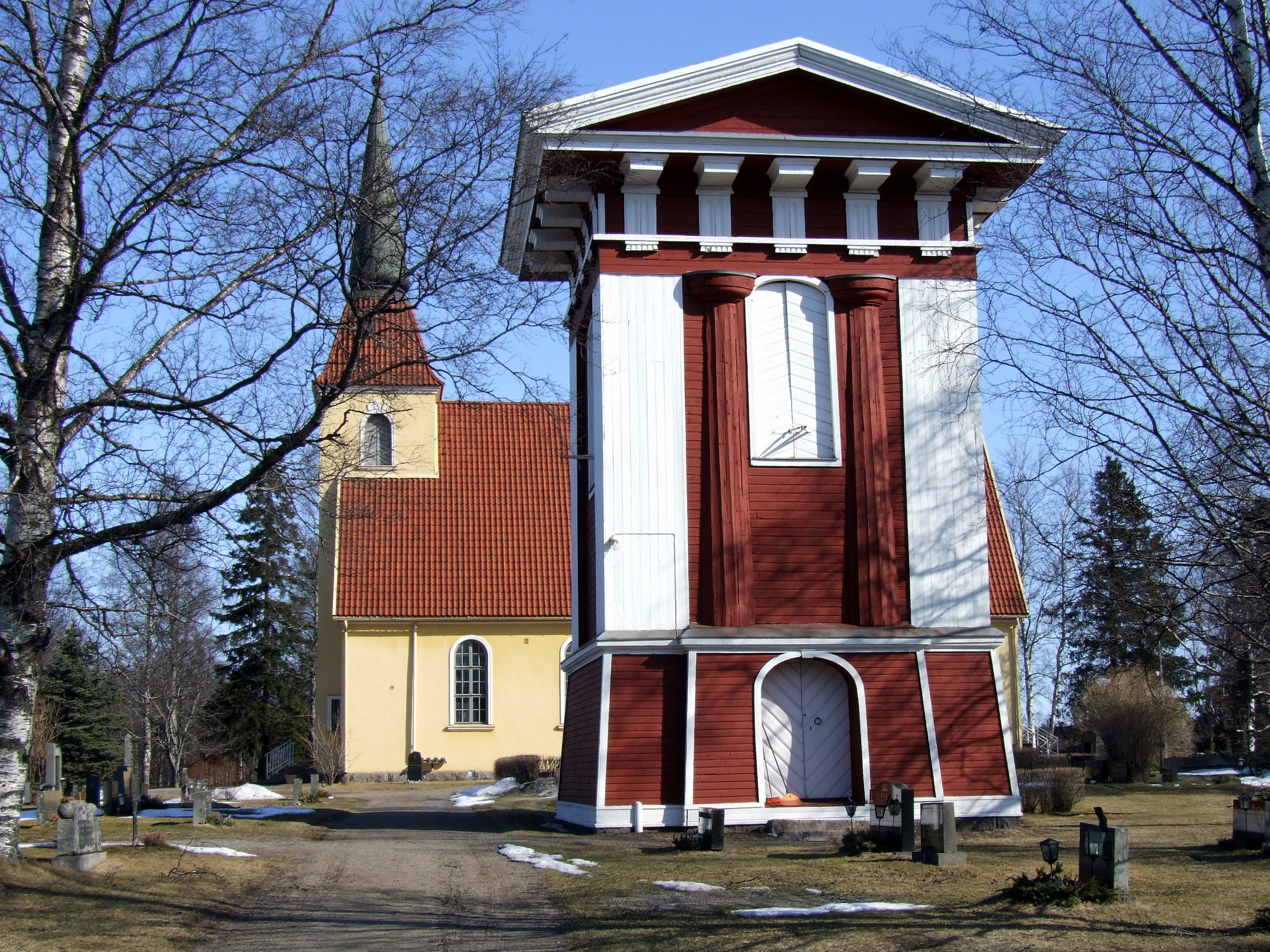 The Saloinen Church was built in 1932. There was an old church on the same place, but it burned down in 1930. The bell tower was built in 1783 and it has said to been designed by Gustav III, King of Sweden.